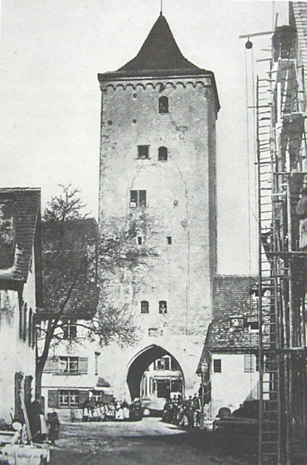 Biberach an der Riß, Ehingen Tower, before 1877